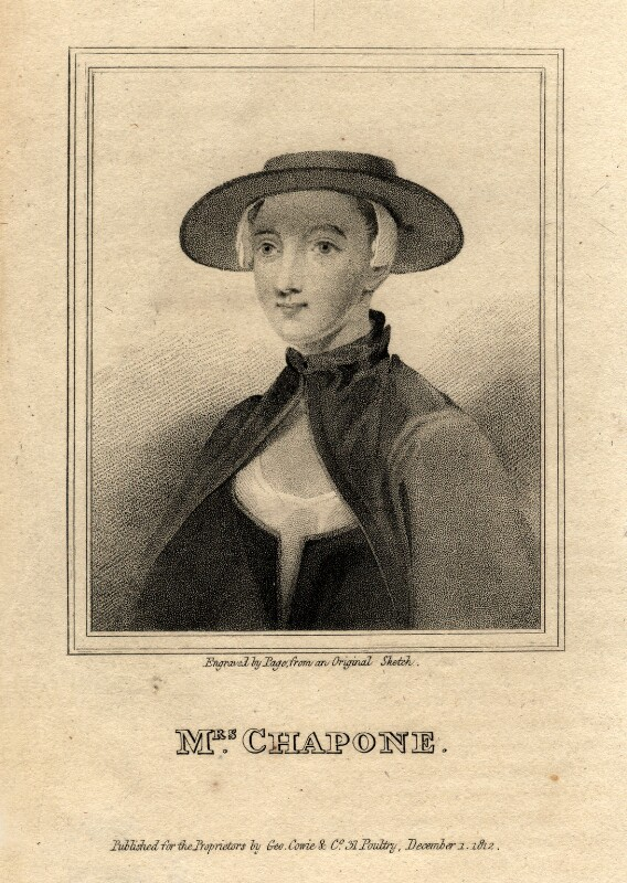 Hester Chapone (née Mulso) by R. Page stipple engraving, published 1 December 1812 Given by Henry Witte Martin, 1861 Reference Collection NPG D2046